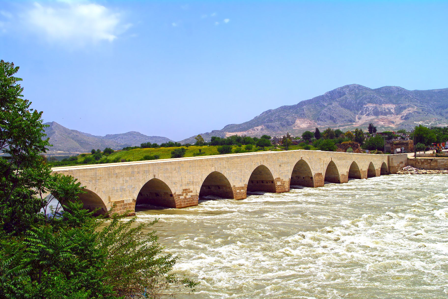 A view of Misis Bridge on Ceyhan River. Misis, Yüreğir - Adana, Turkey.